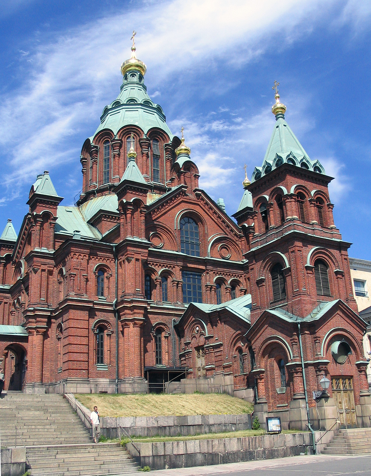 Uspenski (Uspensky) Cathedral in Helsinki